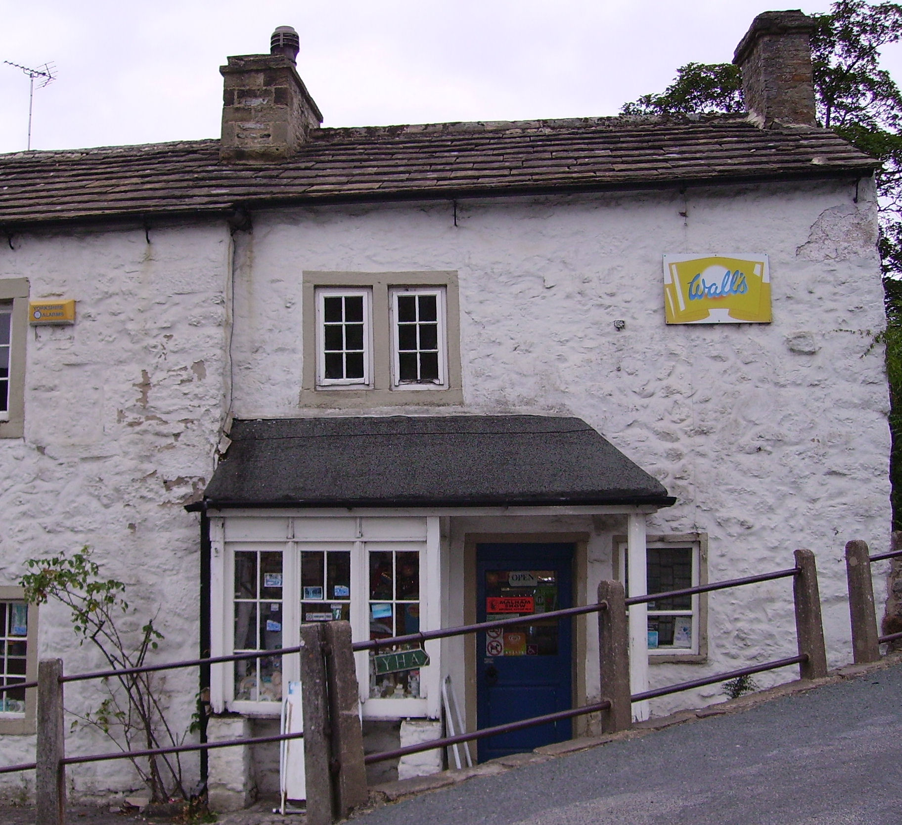 view of Malham in the Yorkshire Dales, United Kingdom